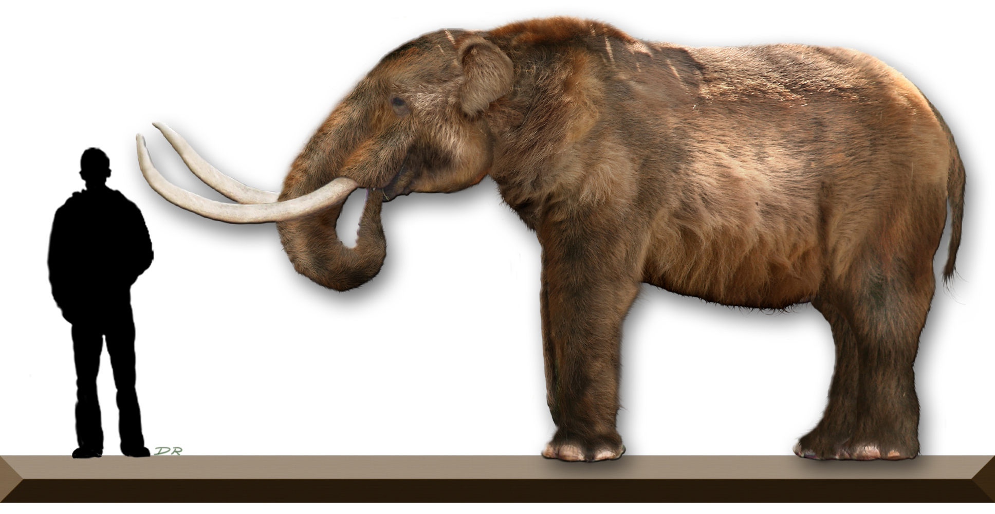 I created this scientific reconstruction of a mastodon in adobe photoshop by hand, It is copyrighted by myself, Similar pictures can be found at my flickr website but this image in particular will only be shown on wikipedia so no other links exist. I don't mind if others distribute this picture into other wikipedia articles if it applies to them, as i strongly believe this is one of the best mastodon reconstructions out there.